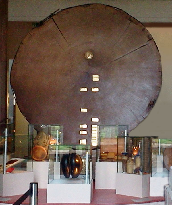 Slice of giant sequoia (Sequoiadendron giganteum) in the entrance hall at the Gallery of Botany of the French National Museum of Natural History in Paris. The individual from which this sample is taken comes from the Sequoia National Park in California, USA. The tree, about 2,200 years old, fell in 1917 and the park's management decided to cut off a few slices in order to offer them to some institutions. One of these slices was offered in 1921 to the American Legion, which is based in Paris and which deposited the sample at the Jardin des plantes.